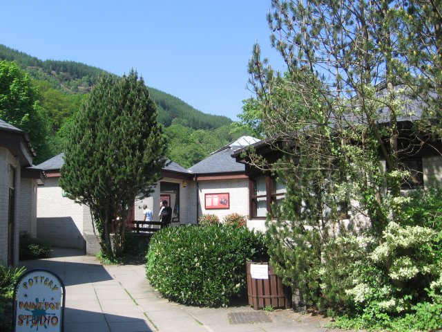 Studios at Corris Craft centre